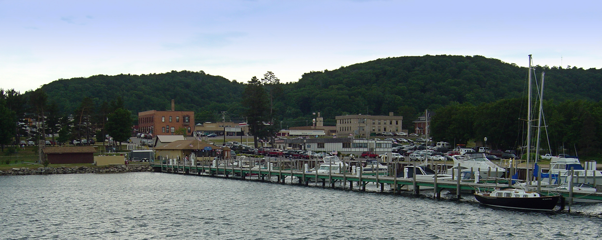 Description: Munising, MI Source: Photo by stanthejeep Date: July 3, 2005 Location: Munising, MI Author: stanthejeep